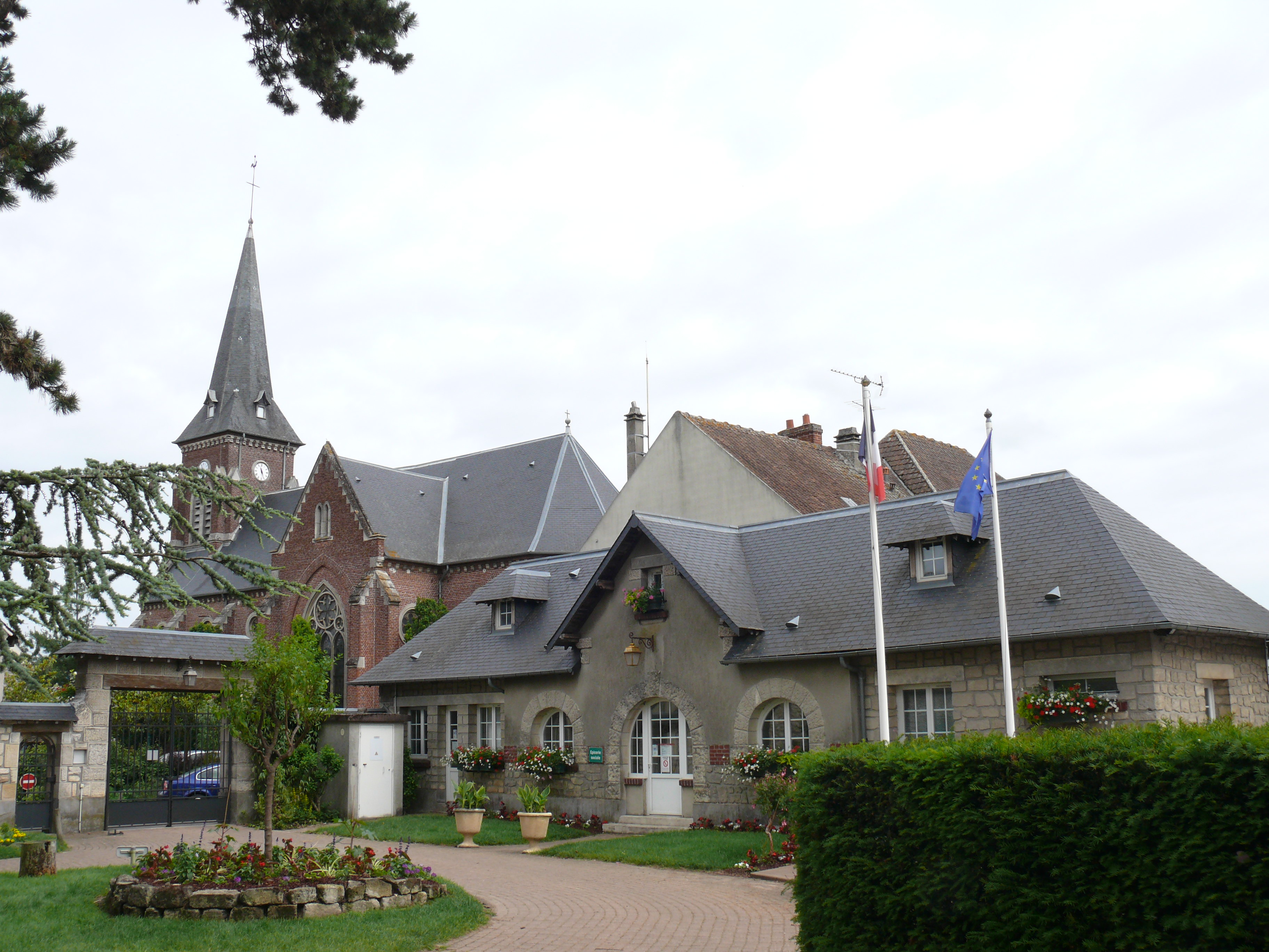 The town hall of Le Plessis-Belleville (Oise, Picardie, France).